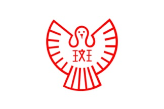 Flag of Ikaruga Nara